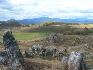 Veal Thom Grasslands near the center of Virachey NP